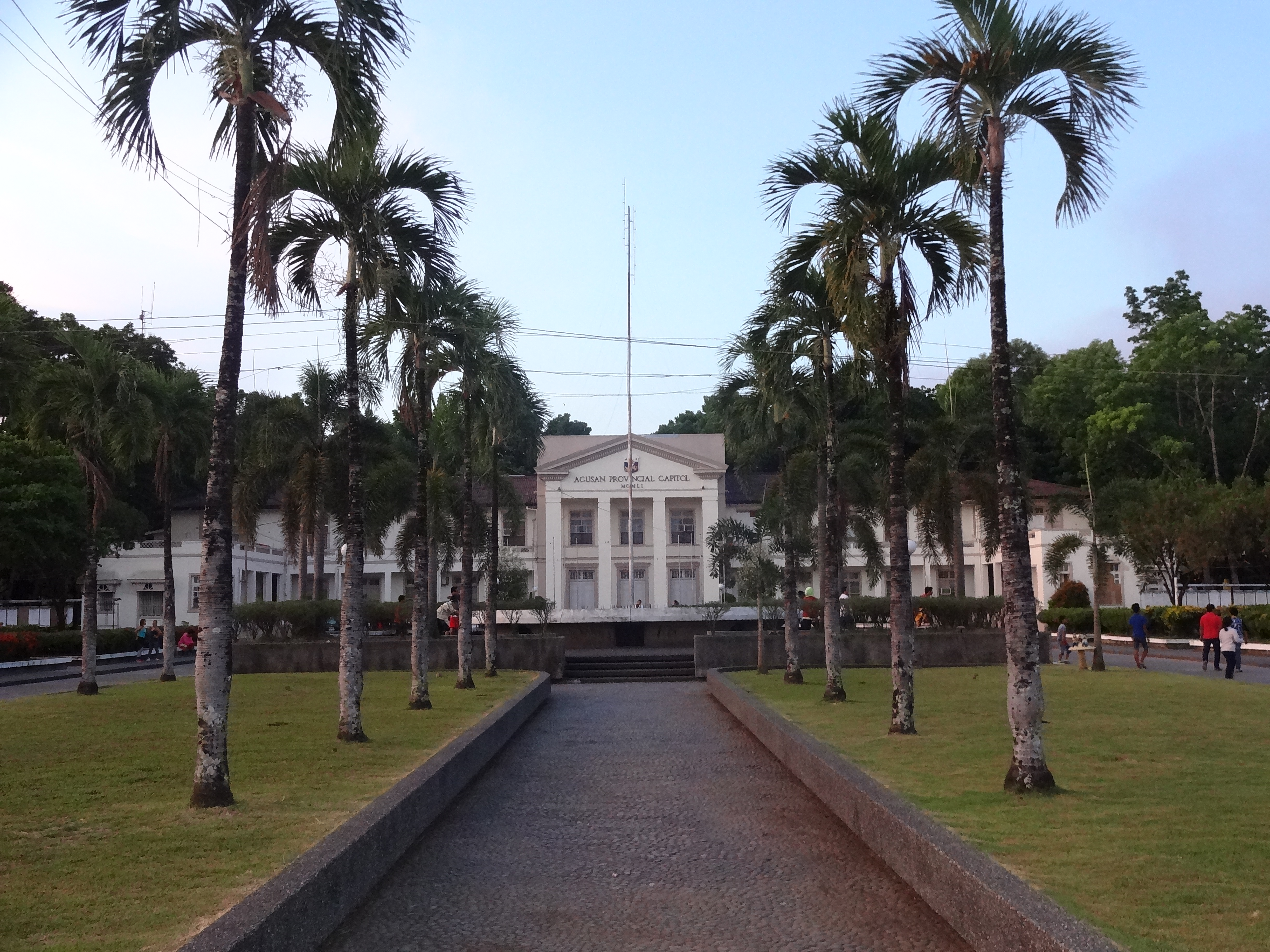 This is my own work. The view of the Agusan del Norte Provincial Capitol.